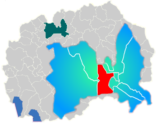 Map of KarpoÅ¡ municipality.